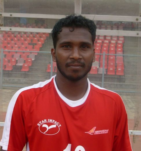 Soccor Velho (born 1983) is an Indian football player. He is currently playing for Air India FC in the I-League in India as a midfielder.